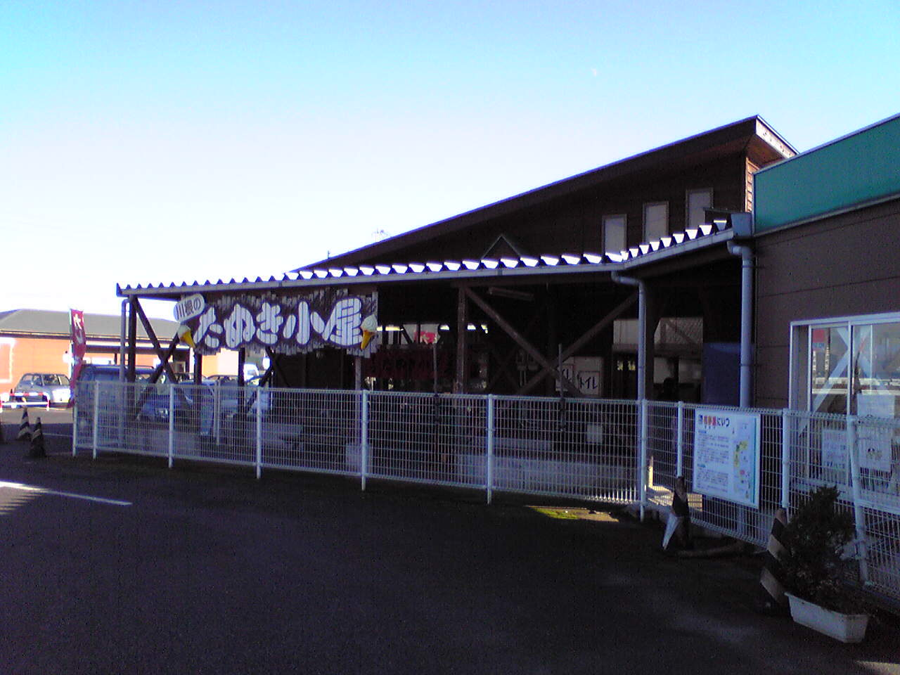 Diner Tanukigoya at Michinoeki Kamuri Niitsu in Niigata City, Niigata Prefecture, Japan